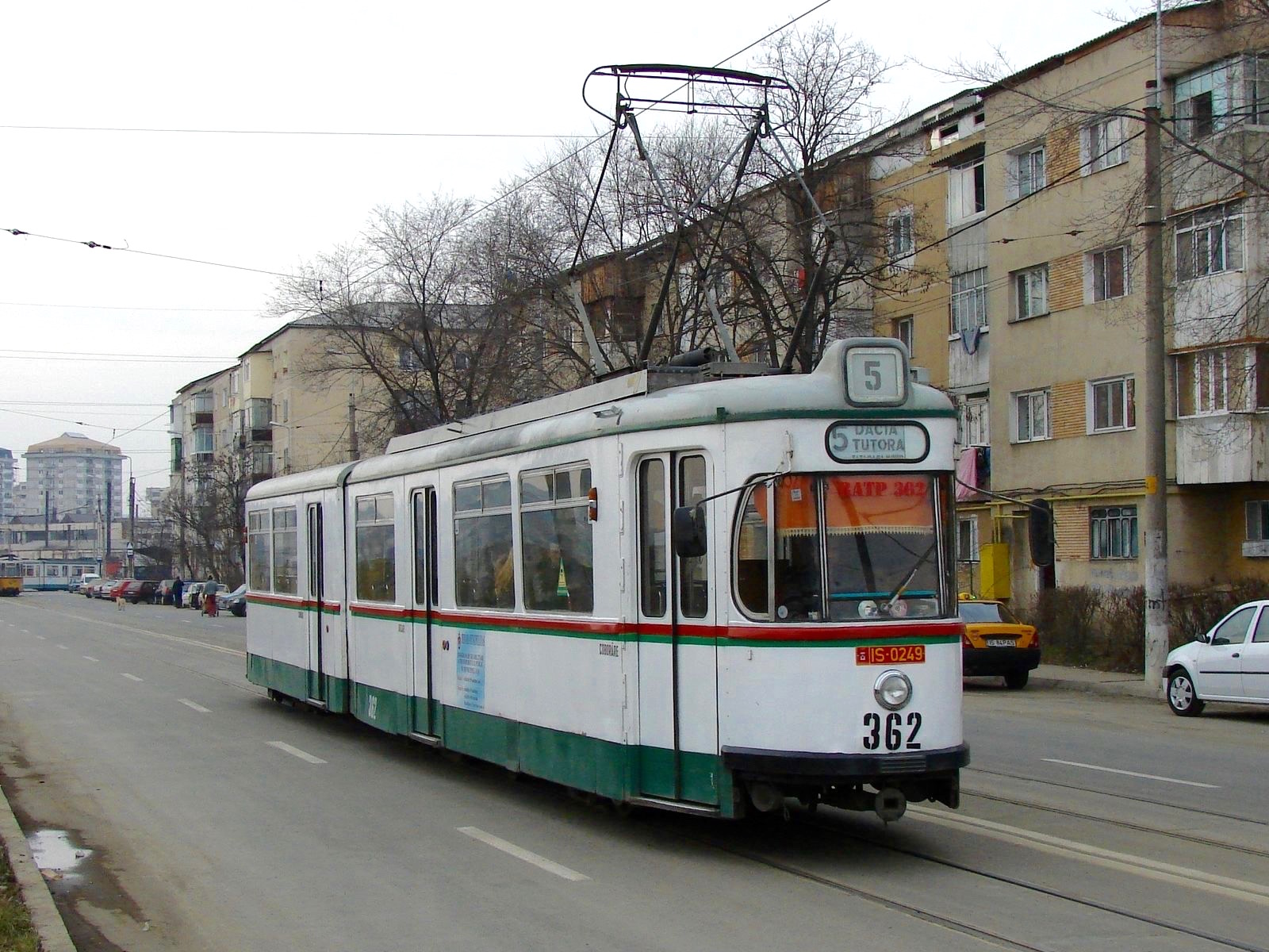 Iasi tram 362, ex-Augsburg 522, on route 5 in February 2008. Car 363 is a type GT5 five-axle tram built in 1964 by MAN. It was acquired by the Iasi tram system in 2001.